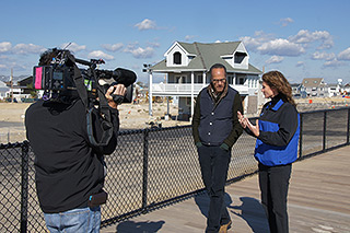 Dr. Holly Bamford talks with Lester Holt from NBC Nightly News about the "crisis along America's coasts" and the need to re-envision how we rebuild. The location is Ortley Beach, NJ.